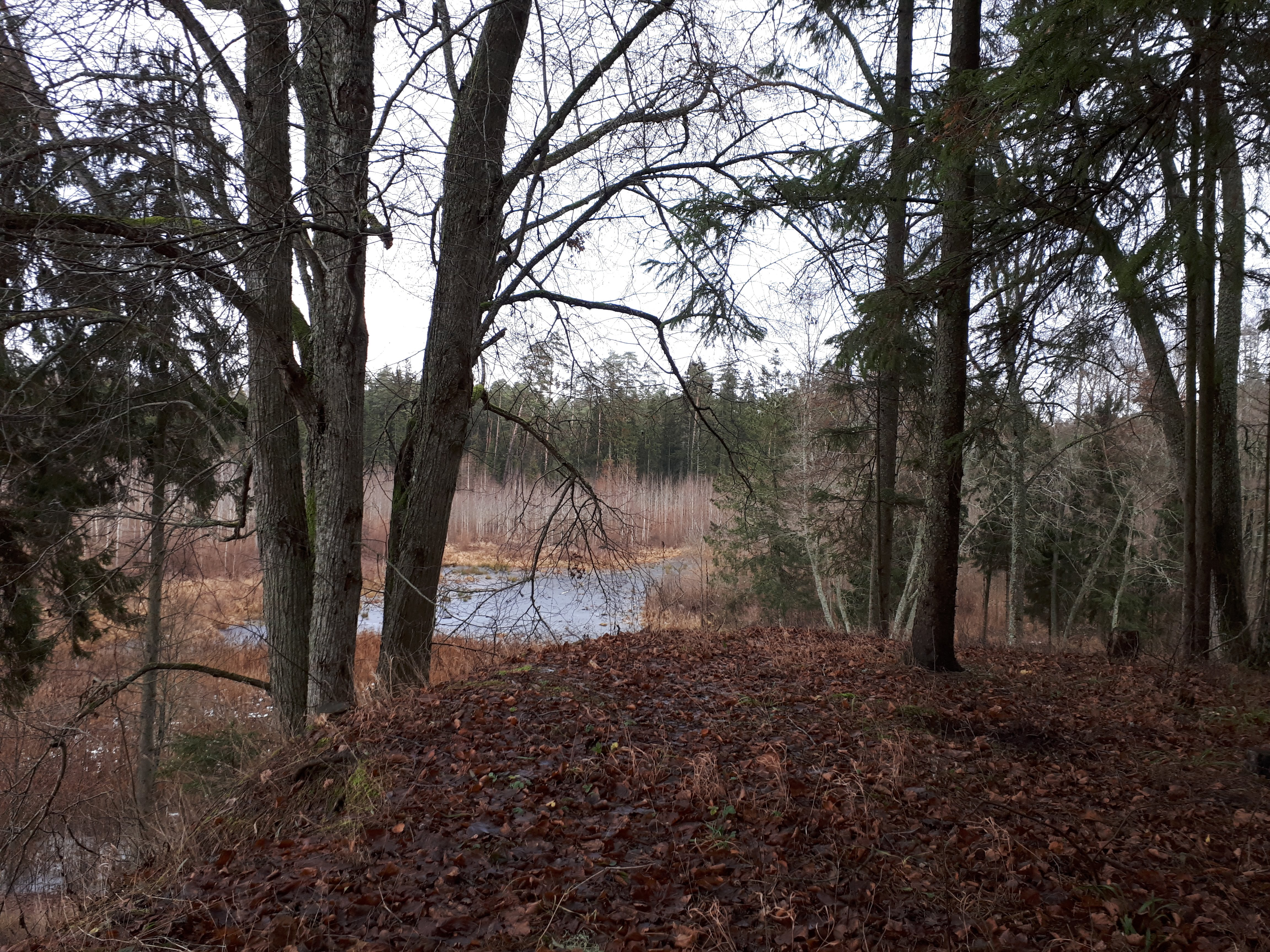 Pūre hillfort (Mūļkalns) in Tukums municipality, Pūre parish, Latvia